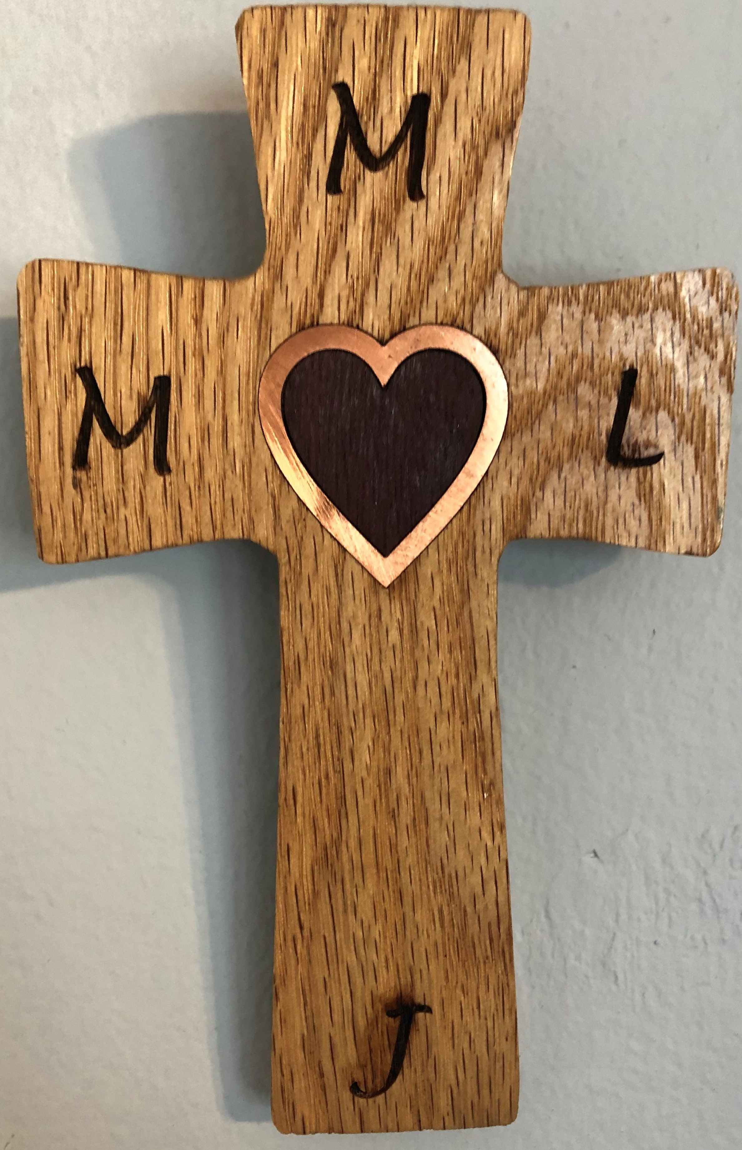 The Community of the Gospel cross is given to all members upon profession. The top M represents the earliest Gospel, Mark. The right side L represents Luke. The left side M represents Matthew. These are the three Synoptic Gospels, according to Biblical scholars. The bottom J represents the Gospel of John. The heart in the middle is where all monastic practices are aimed: changing the inner life of the monastic towards love.